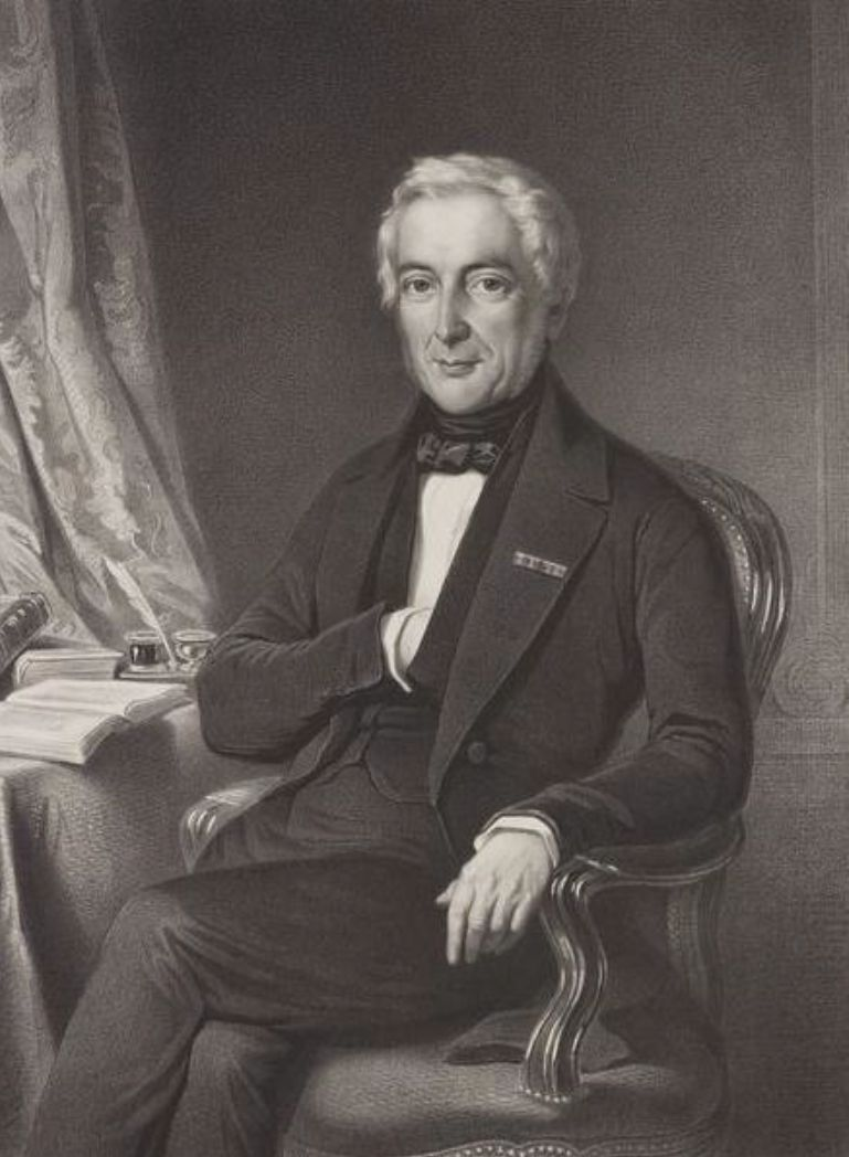 Dr. Gerrit Simons (1802-1868)